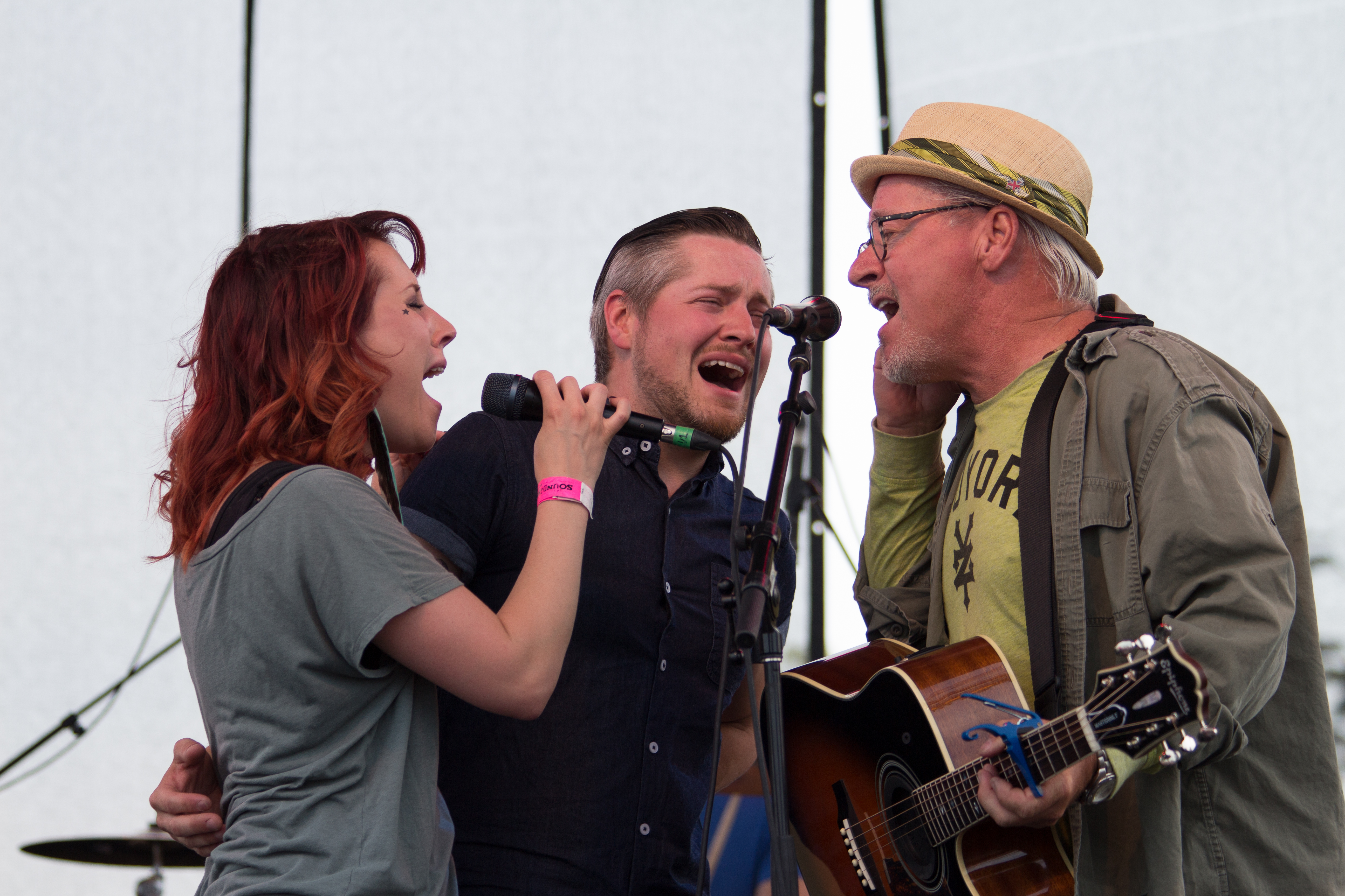 The Wilkinsons - consisting of Amanda Wilkinson (left), her brother Tyler (middle) and their father Steve. It was actually a concert by Amanda & Tyler's new band Small Town Pistols where Steve joined them on stage for a song or two.